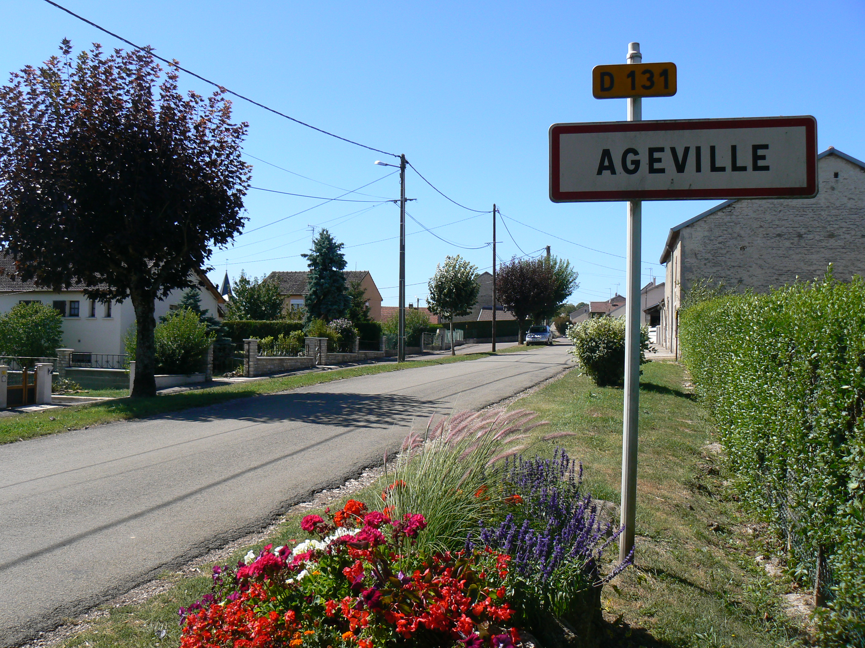 Village of Ageville - France